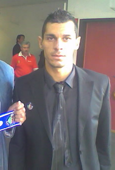 Francisco Javier Casquero Paredes (born March 11, 1976 in Talavera de la Reina, Toledo) is a Spanish footballer who plays for Getafe CF.